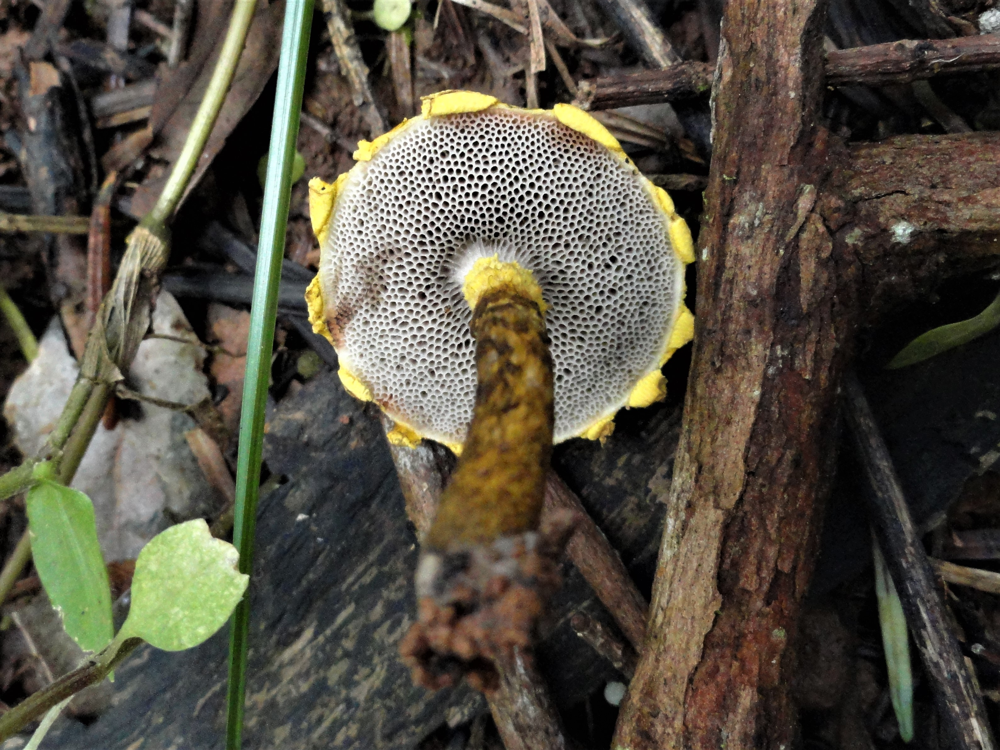 Strobilomyces mirandus Corner Image location: Ban Waan, Paek, Xiengkhouang, Laos Grow alone under oak tree Used references: For more information about this, see the observation page at Mushroom Observer.